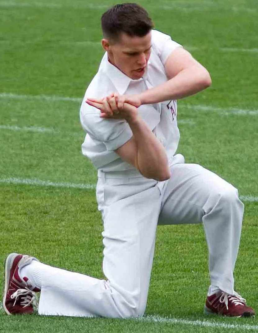 Texas A&M University yell leader, Lans Martin, at Kyle Field doing the "Gig 'Em" Yell.